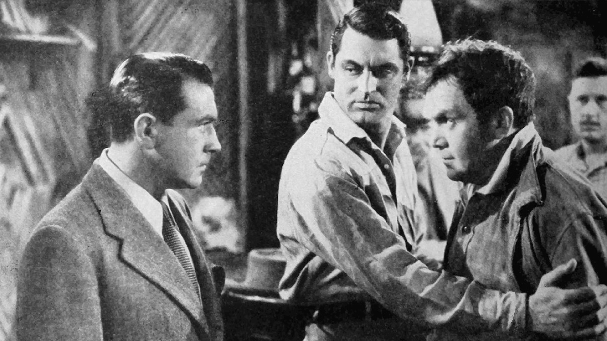 Photo of Richard Barthelmess, Cary Grant, Thomas Mitchell (Allyn Joslyn in background) from the 1939 film Only Angels Have Wings. A search for renewals was done in books for the years 1970 and 1971. Neither the title nor the author was listed; there's no evidence of copyright continuing on this book.